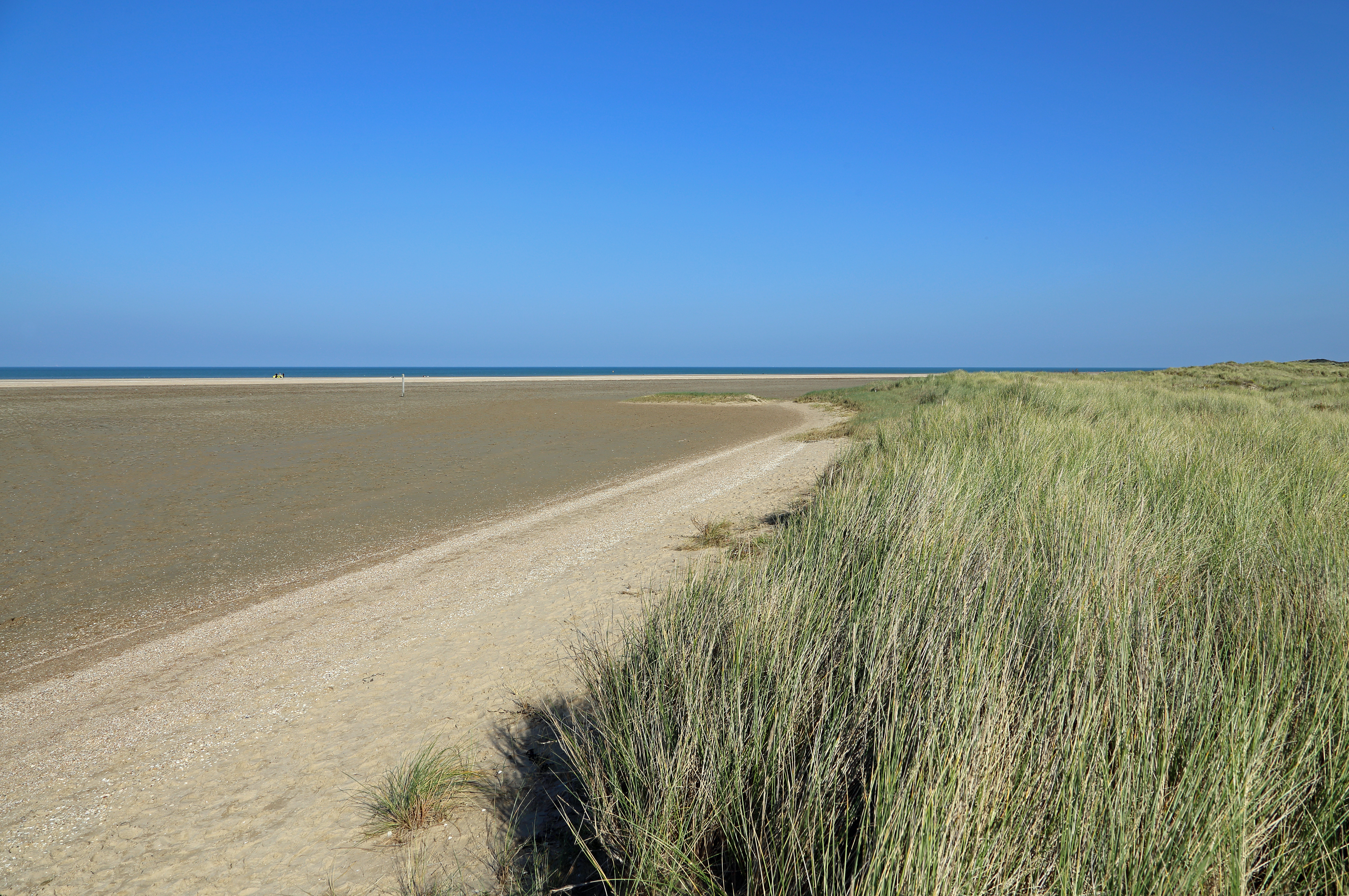 Oye-Plage (Pas-de-Calais department, France): nature reserve Réserve naturelle du Platier d'Oye